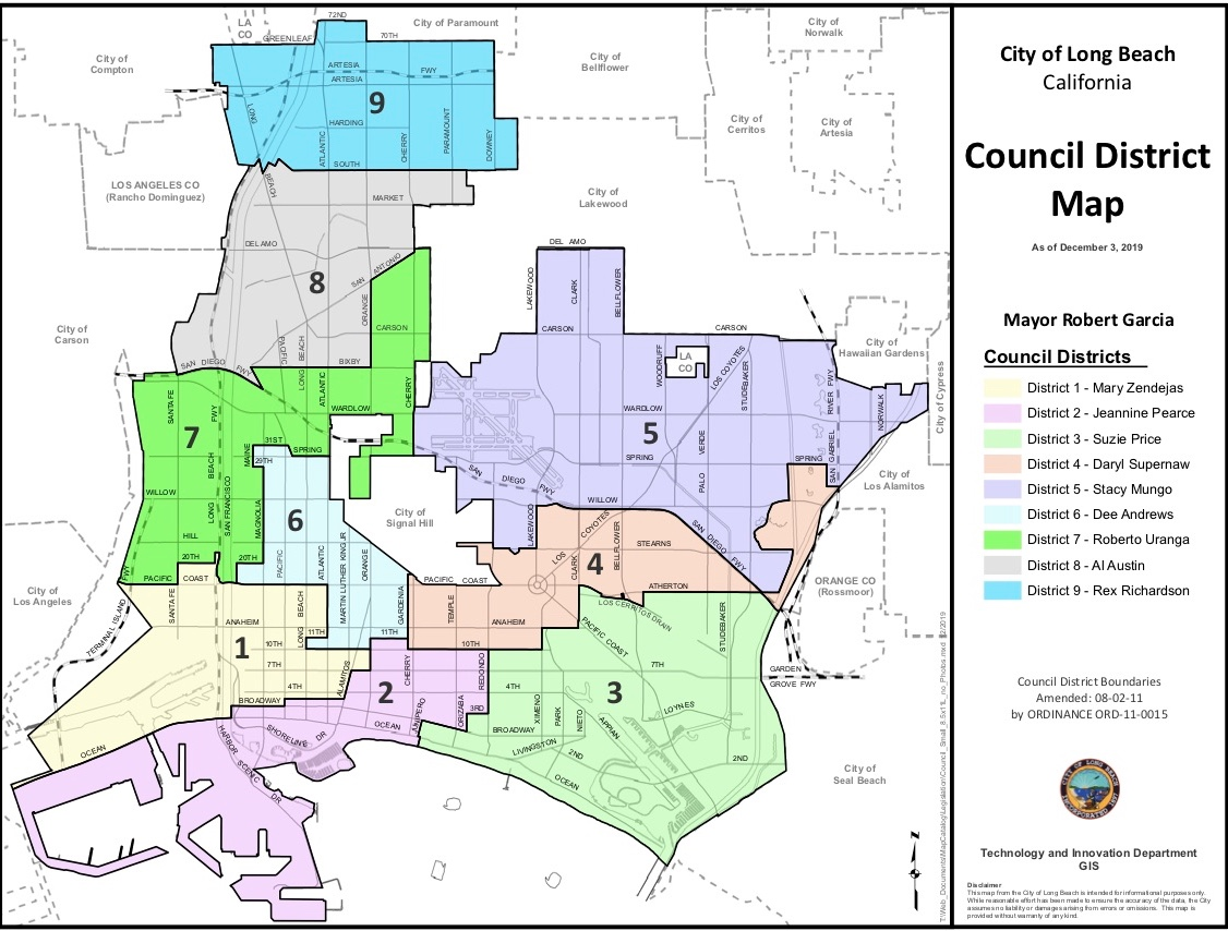 Long Beach City Council District Map eff 12-03-19. Council District Boundaries Amended: 08-02-11 by ORDINANCE ORD-11-0015.